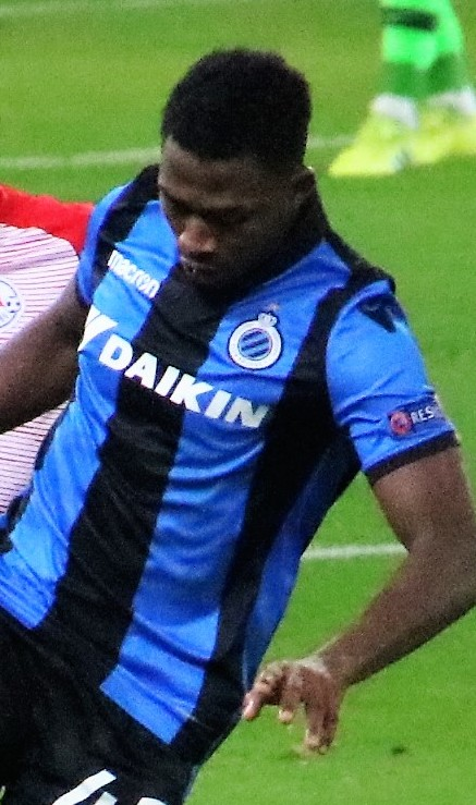 UEFA Euro League round of 32